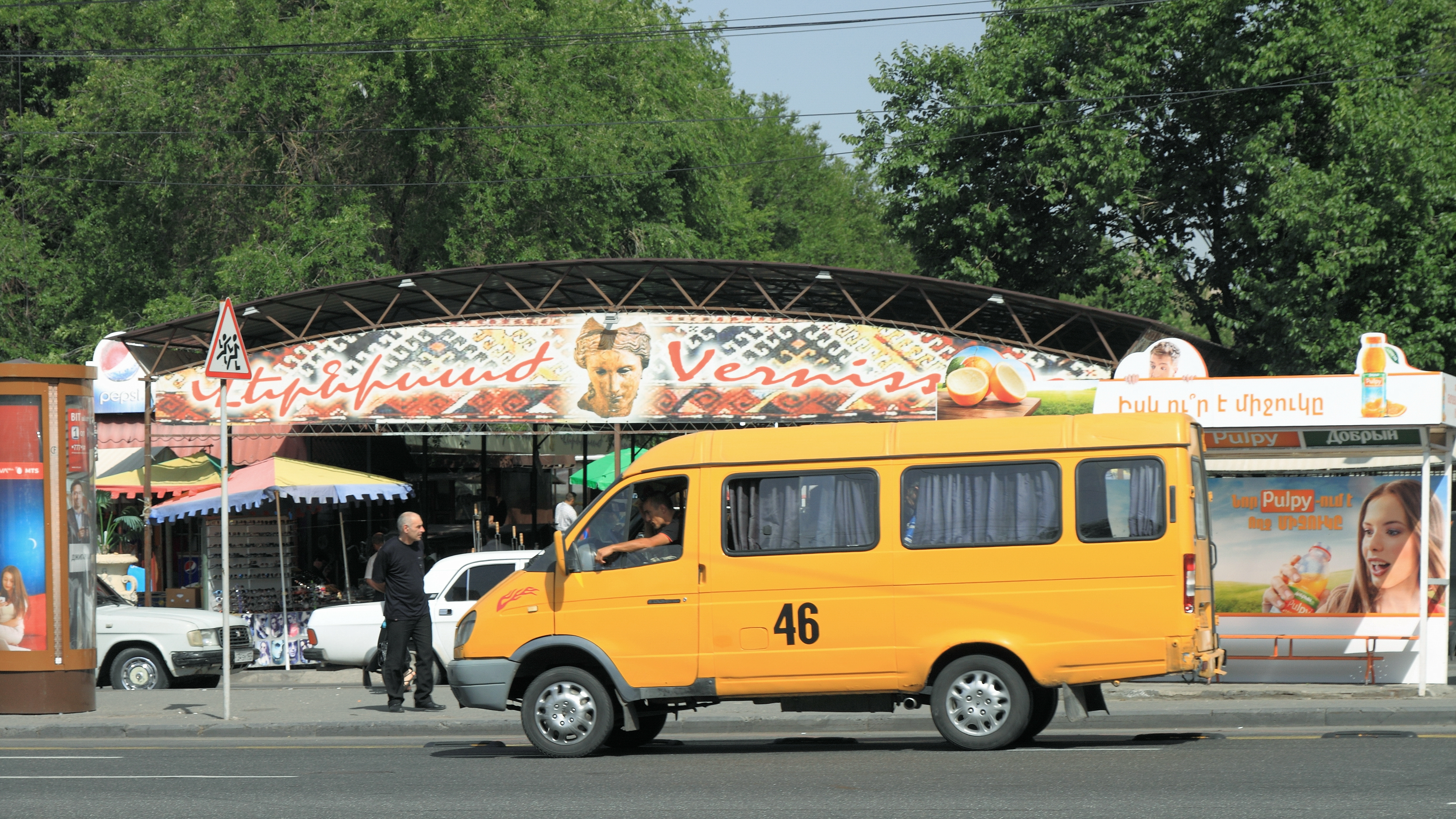 Marshrutka in the center of the capital. Yerevan, Armenia.